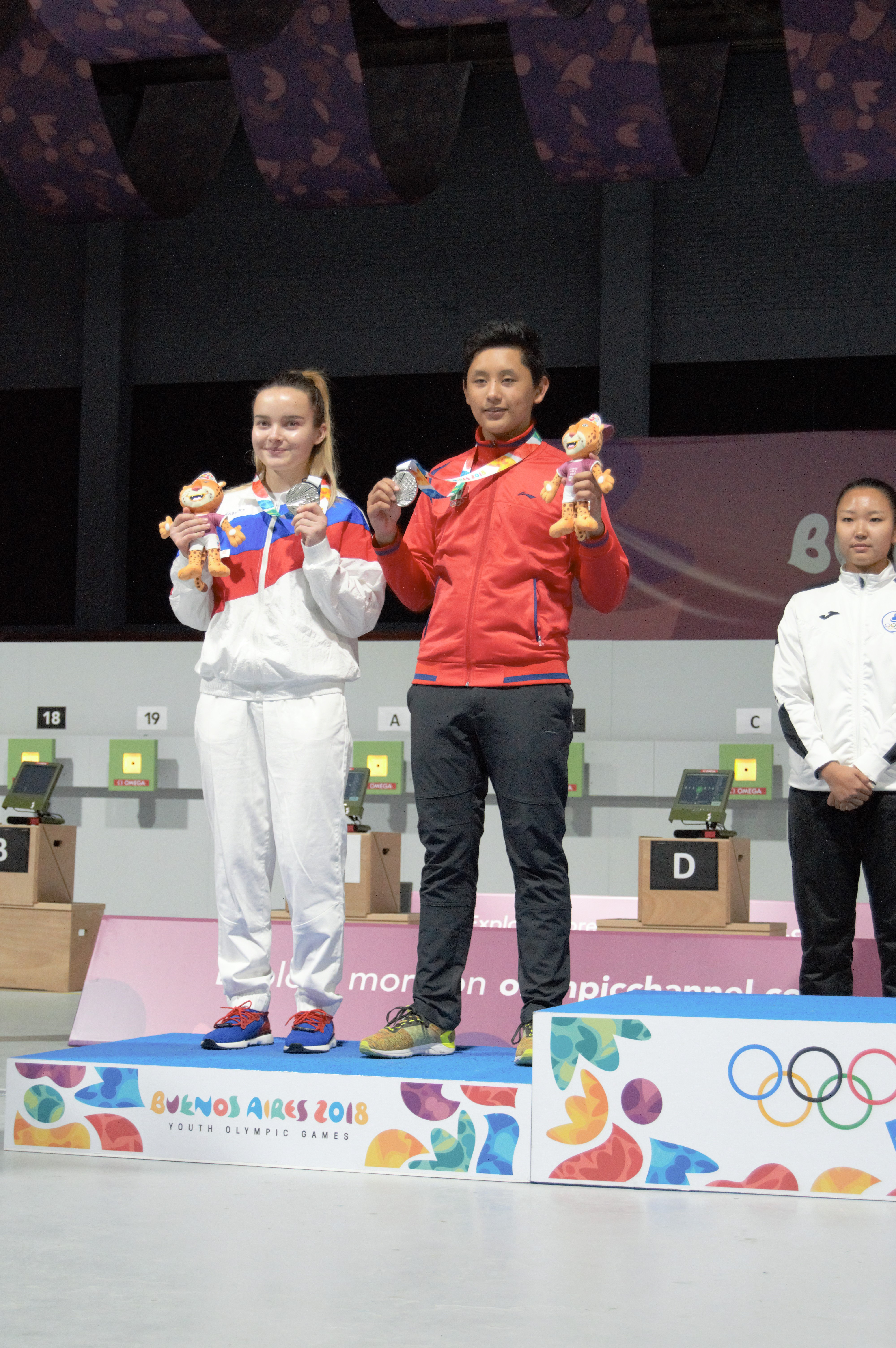 Victory ceremony of the shooting tournament of the 2018 Summer Youth Olympics. 10m Air Rifle Mixed International.